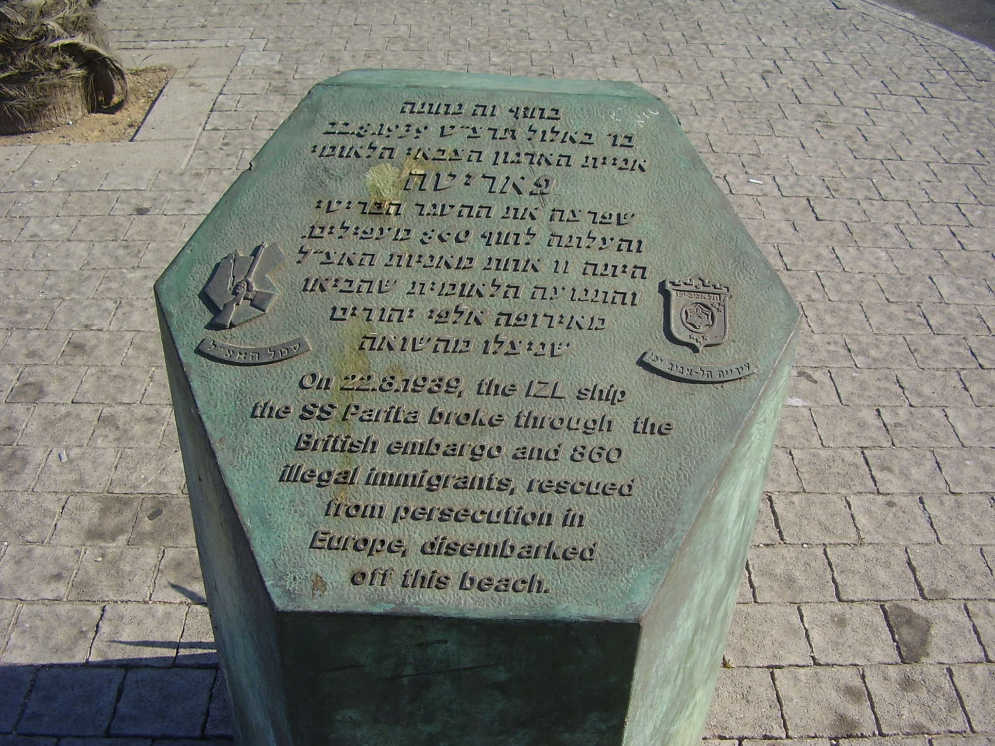 memorial to the immigrants ship parita in tel aviv beach עמוד הנצחה לאניית המעפילים פאריטה בחוף תל אביב